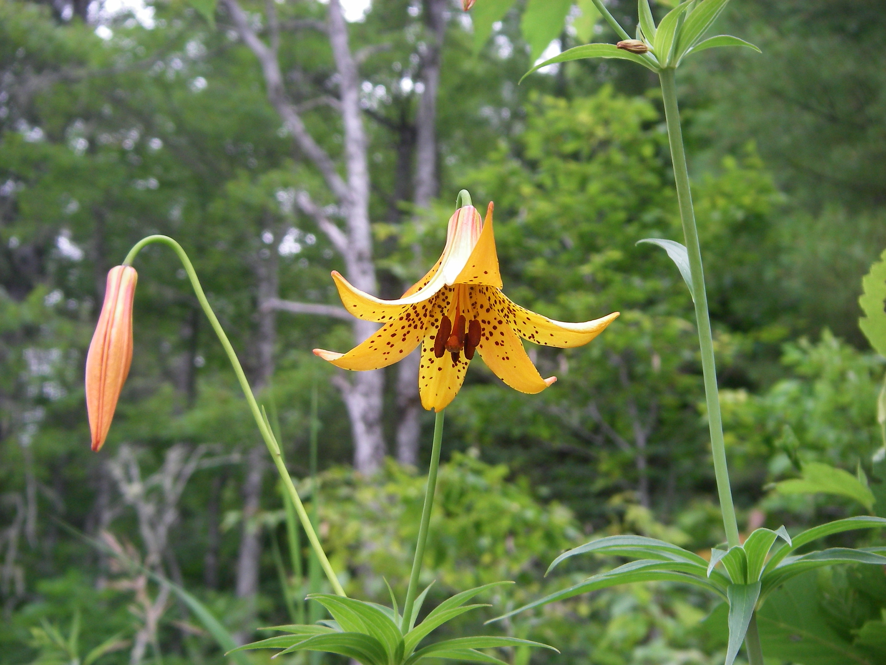 halpaugh@verizon. I personally took this photo on the Dead River in Maine.